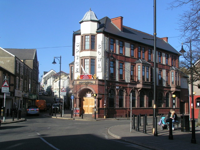 Where Beaufort Street and Bailey Street meet